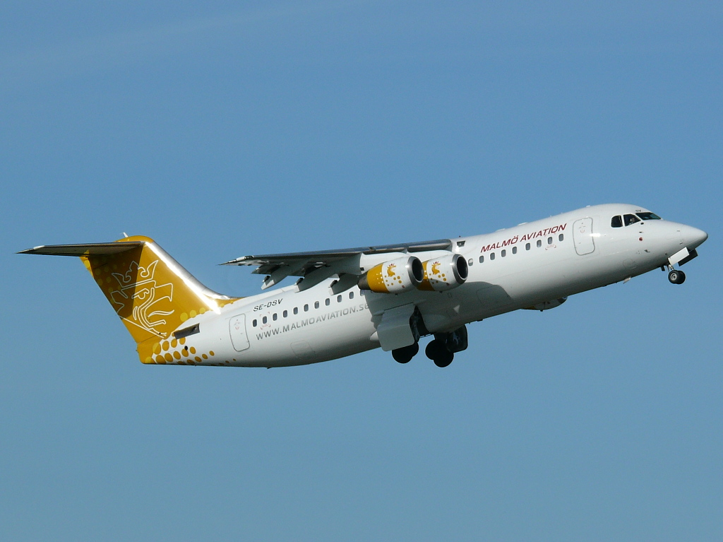 SE-DSV of Malmö Aviation at Malmö Airport, Sweden.